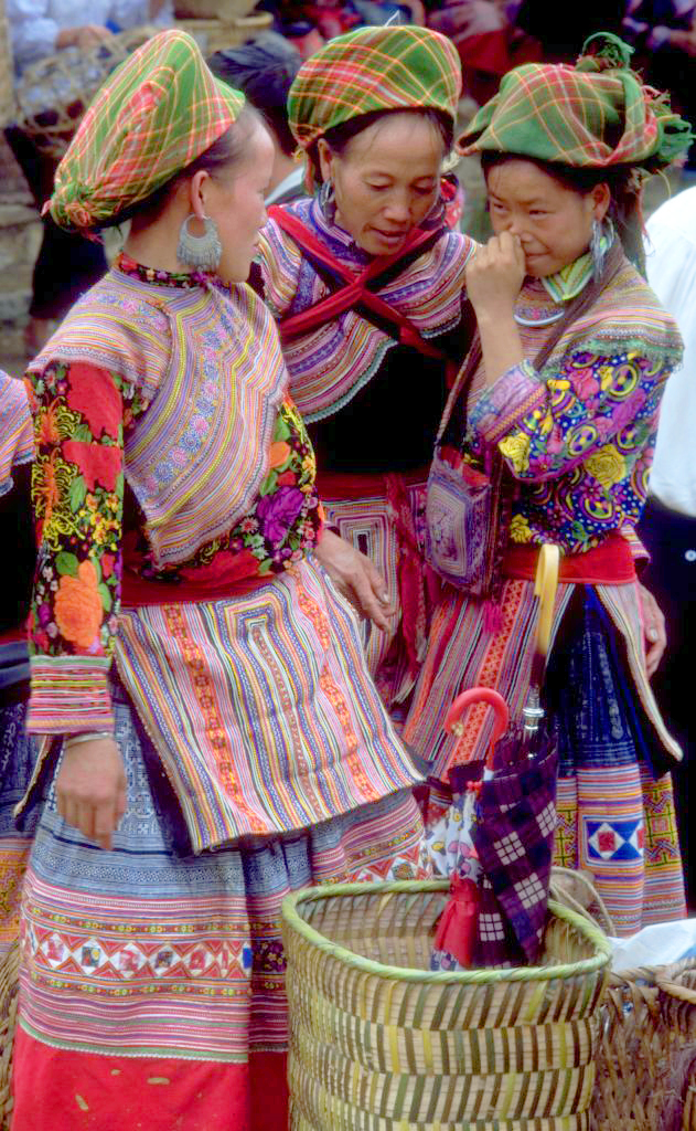 Photo of Flower Hmong women in Bac Ha, Vietnam, August 1999.